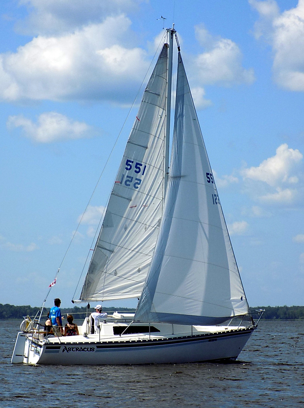 A Kelt 7.6 sailboat named Astraeus.